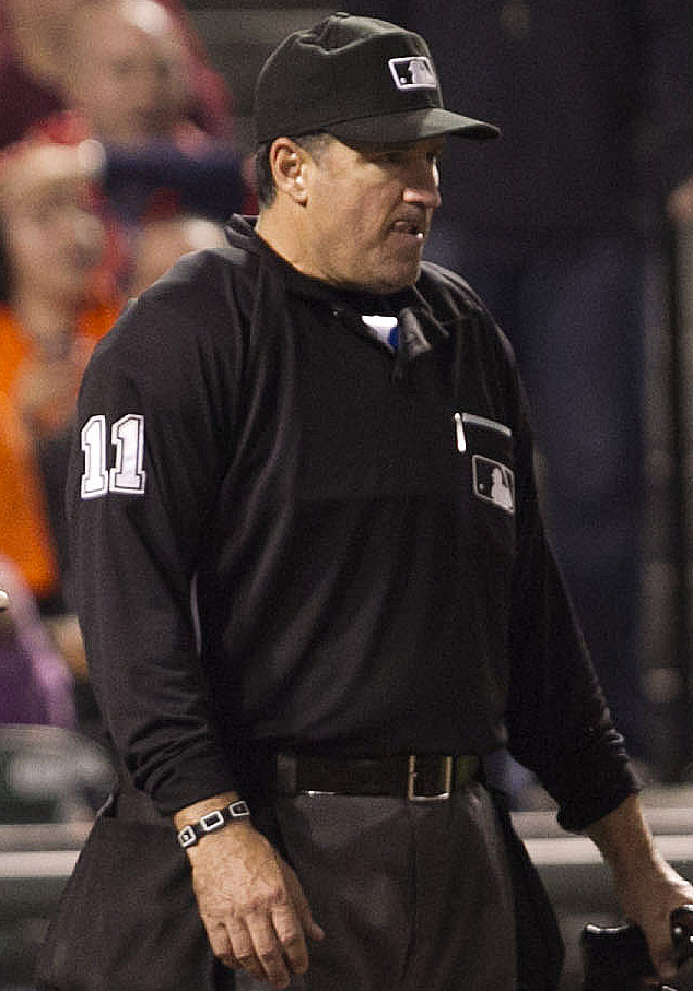 Blue Jays at Orioles April 26, 2012